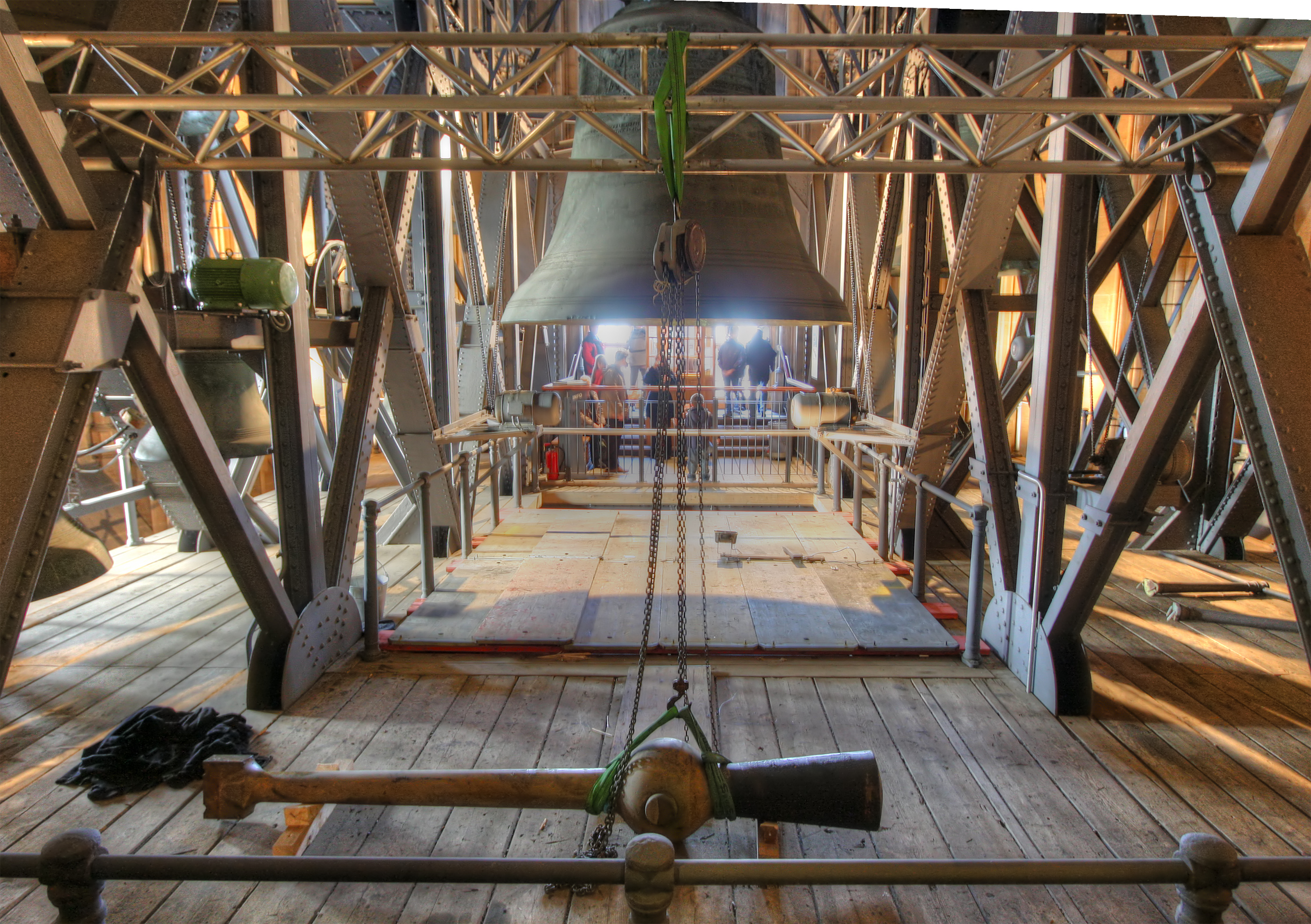 Bell and Clapper of the St. Petersglocke (St. Peter's Bell) after falling down while chiming on January 6th, 2011